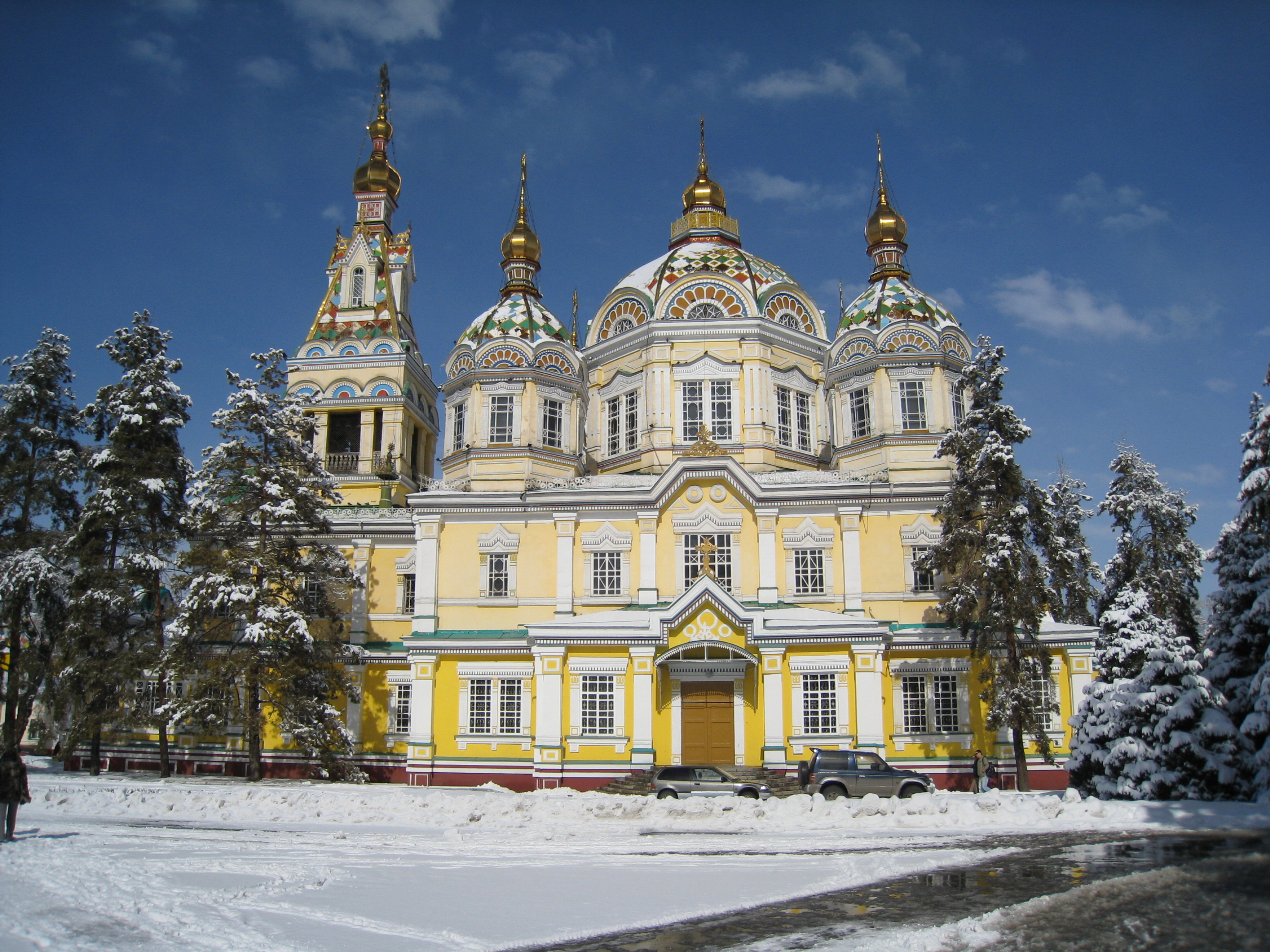 Zenkov Cathedral Winter